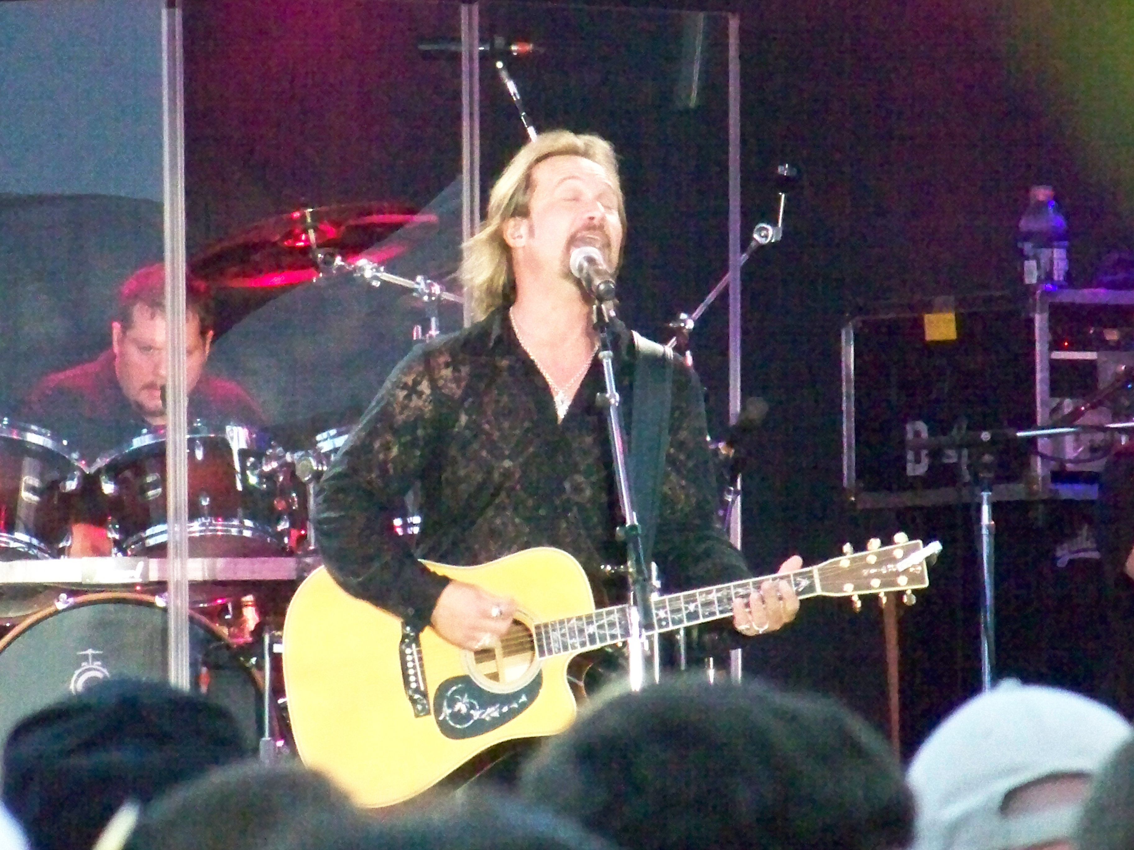 American Country Music singer Travis Tritt at a concert in 2009